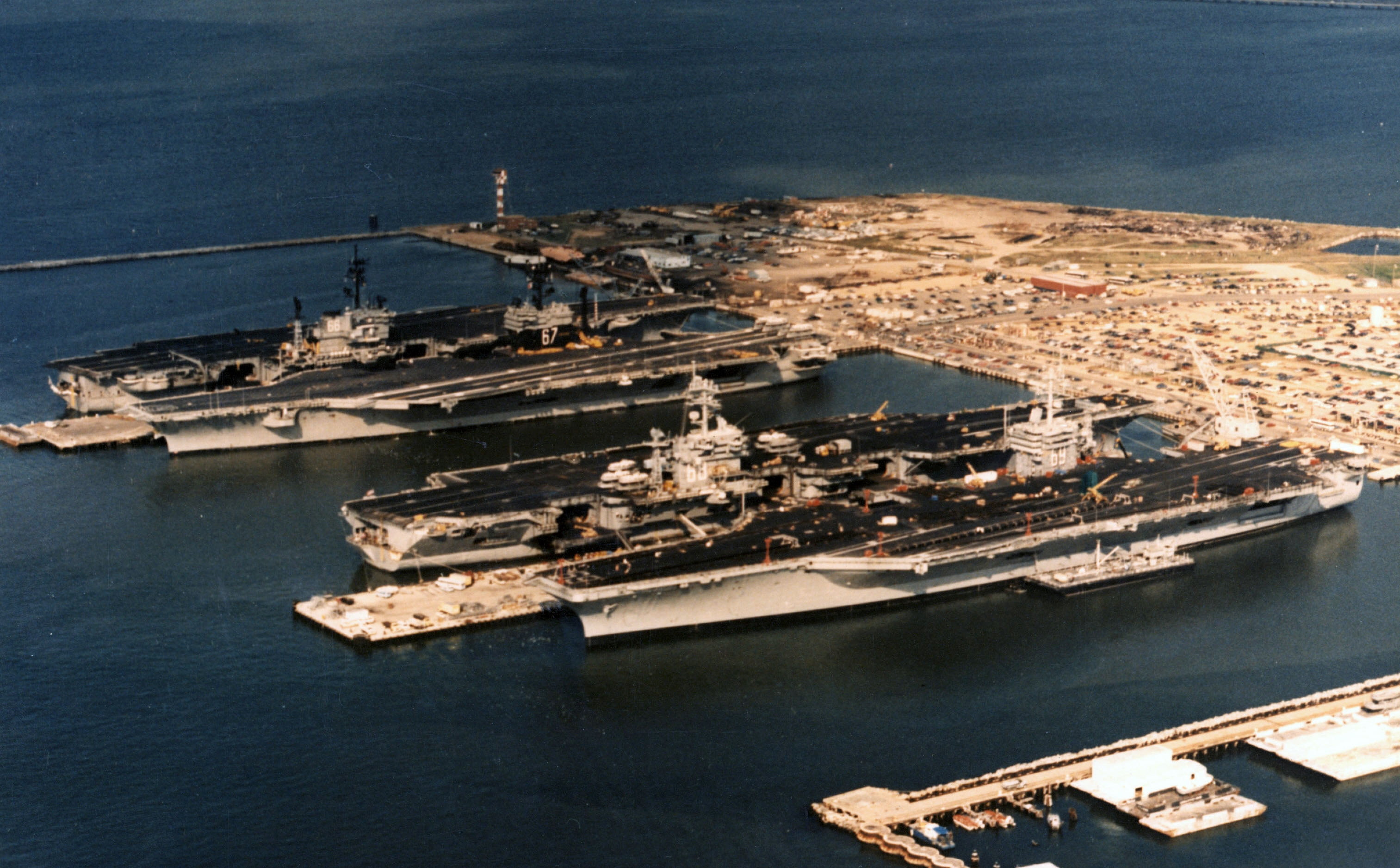 The U.S. Navy aircraft carriers USS America (CV-66), USS John F. Kennedy (CV-67), USS Nimitz (CVN-68), and USS Dwight D. Eisenhower (CVN-69) moored at piers 11 and 12 at Norfolk Naval Station, Virginia (USA), in 1985.